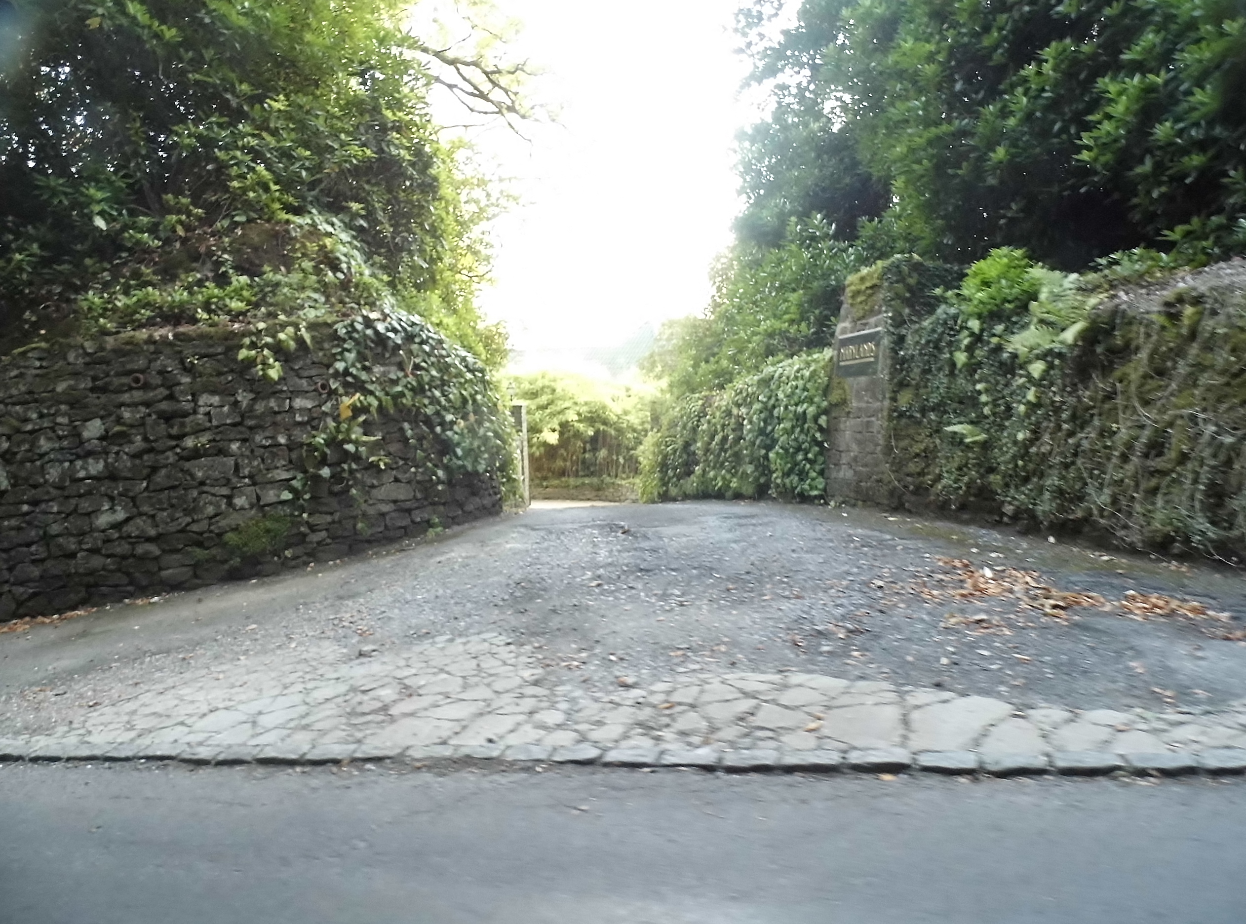 The entrance to Marylands on Ride Way, Ewhurst.